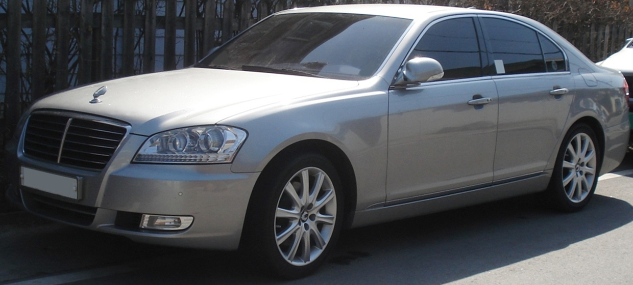 SsangYong Chairman W